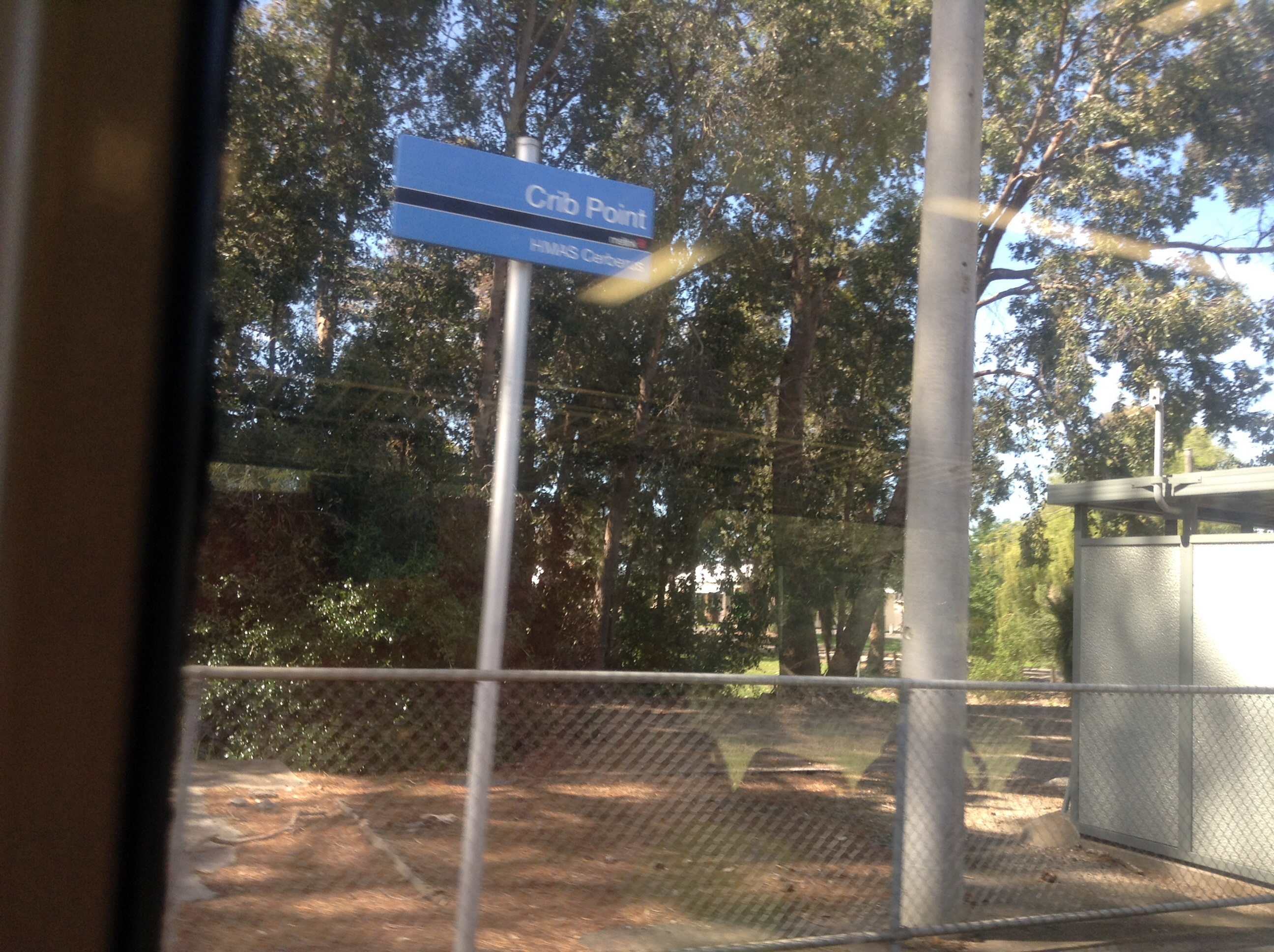 Crib point station.